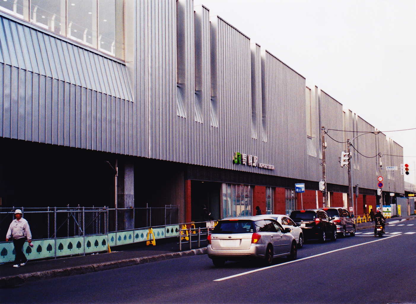 Nopporo Station south exit